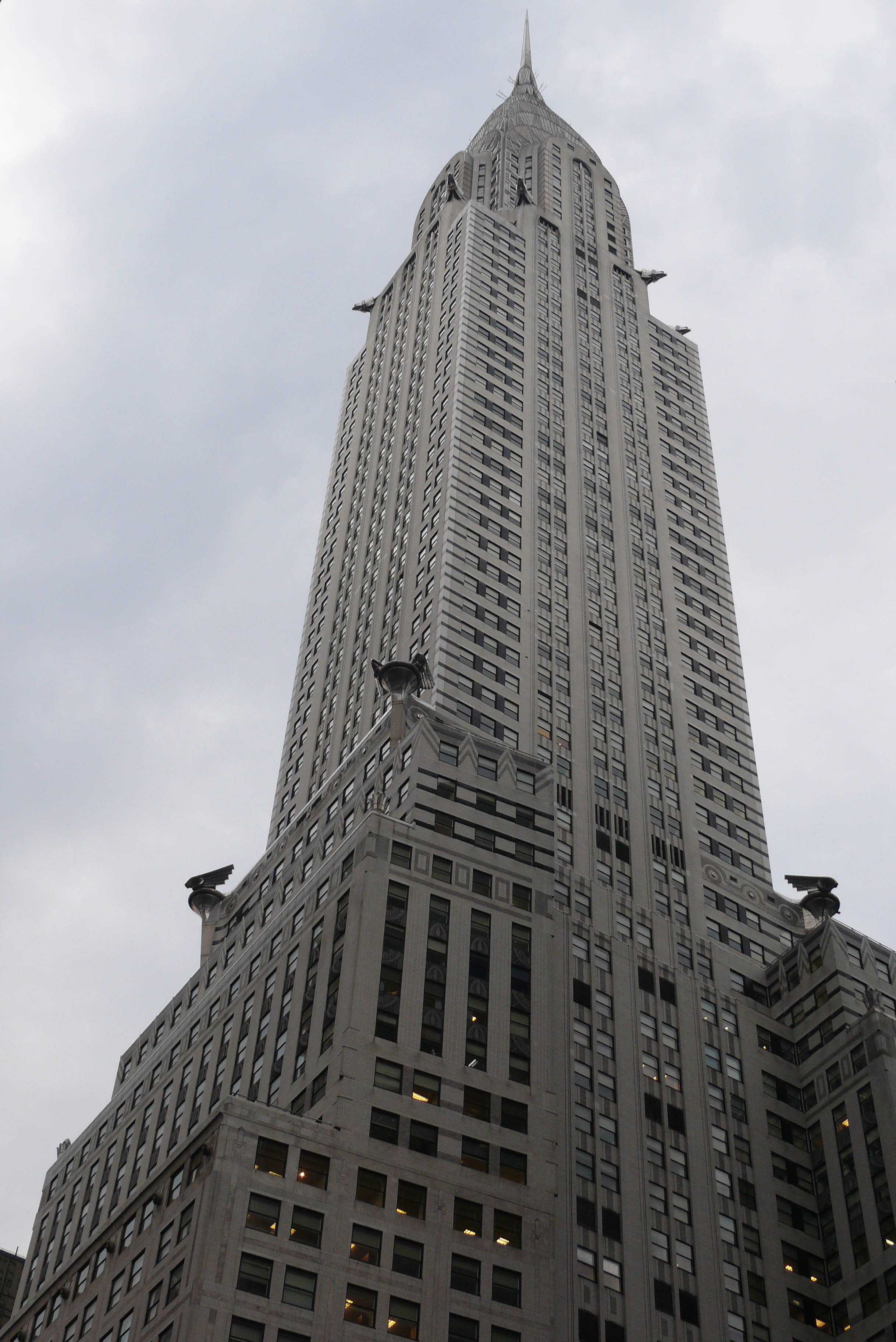 The Chrysler Building is an Art Deco skyscraper in New York City, located on the east side of Manhattan in the Turtle Bay area at the intersection of 42nd Street and Lexington Avenue.